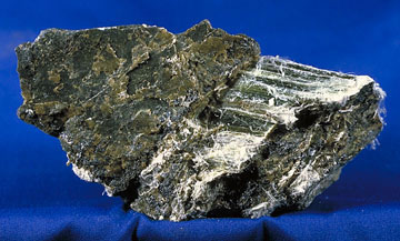 Asbestos